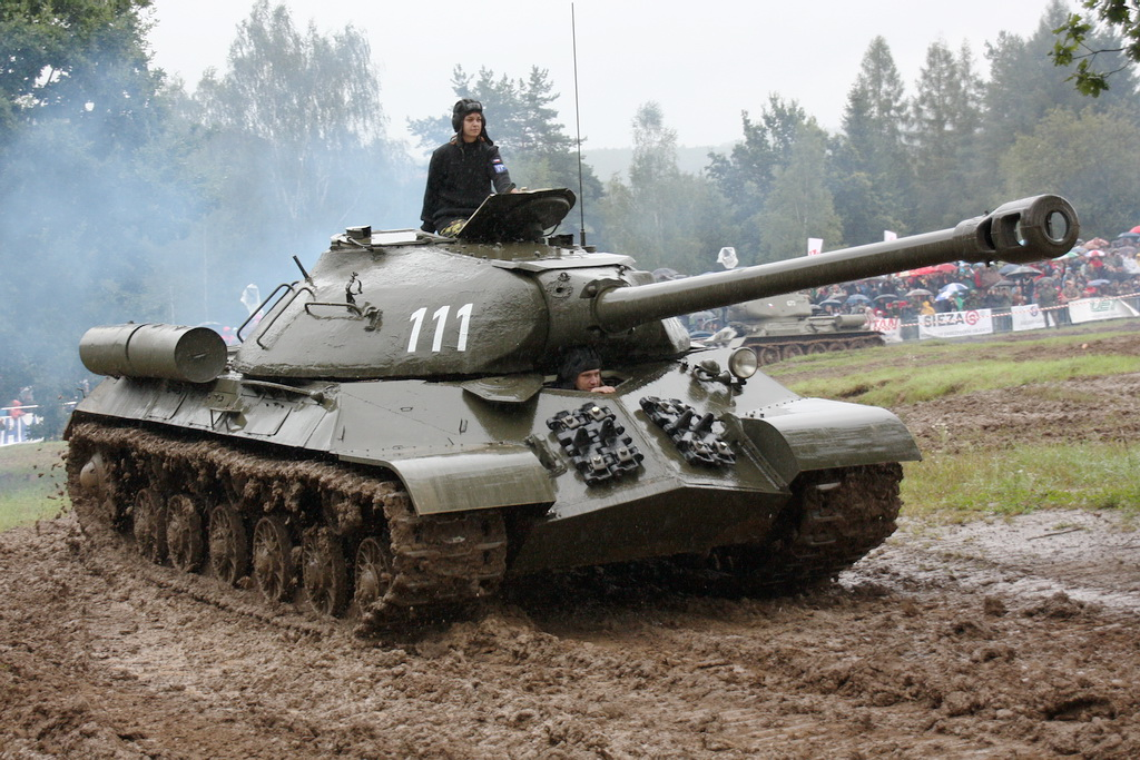 Soviet IS-3 heavy tank during 8th 'Tank Day' in Military Technical Museum Lešany.